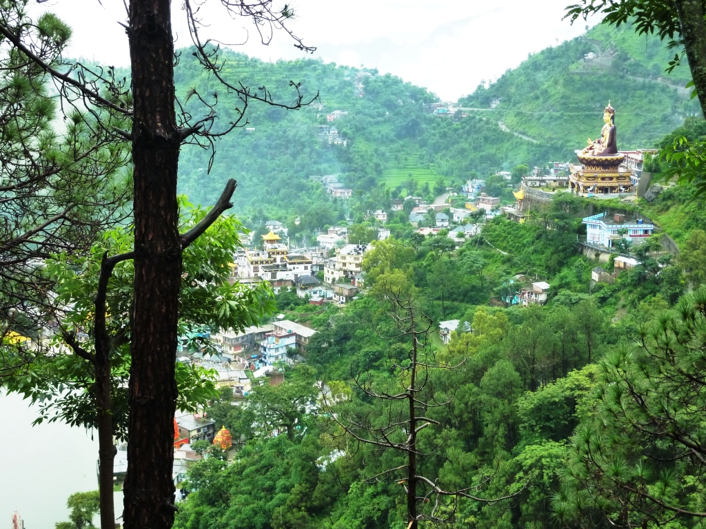 I took this photo on a visit to Rewalsar earlier this year